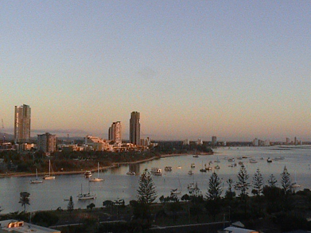 Australia's Gold Coast by dawn, looking north towards Southport from Main Beach.